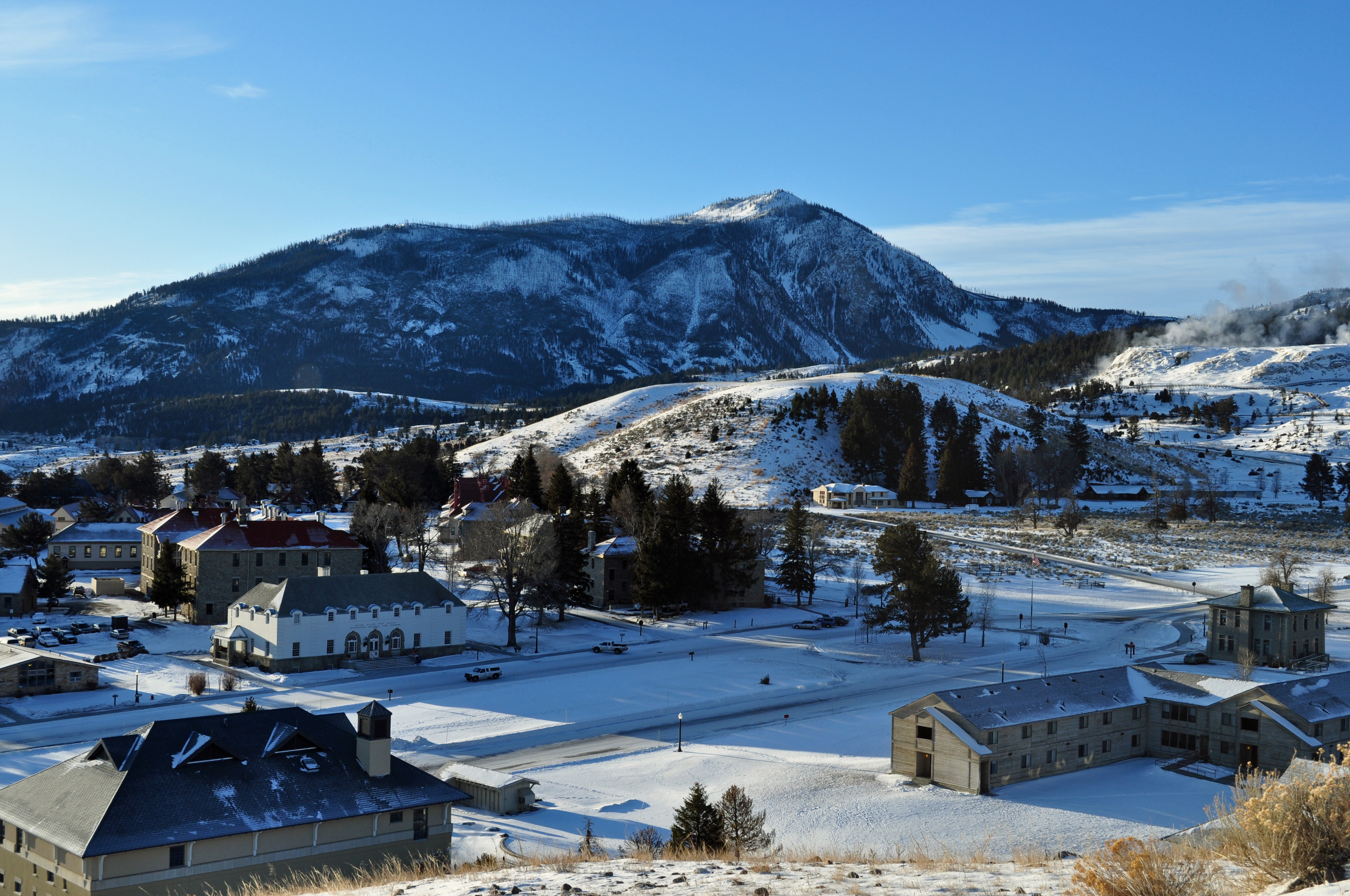 Bunsen Peak from Mammoth Hot Springs, Yellowstone National Park, December 2009